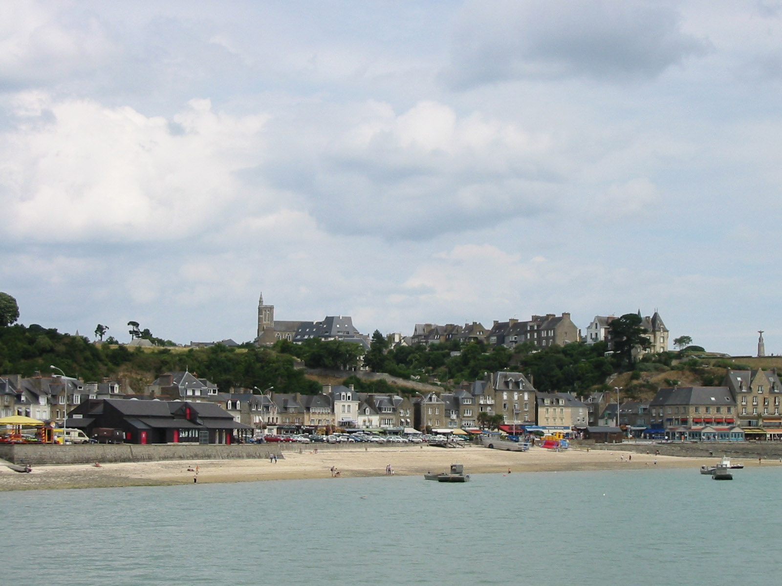 France,Brittany : beach of Cancale.